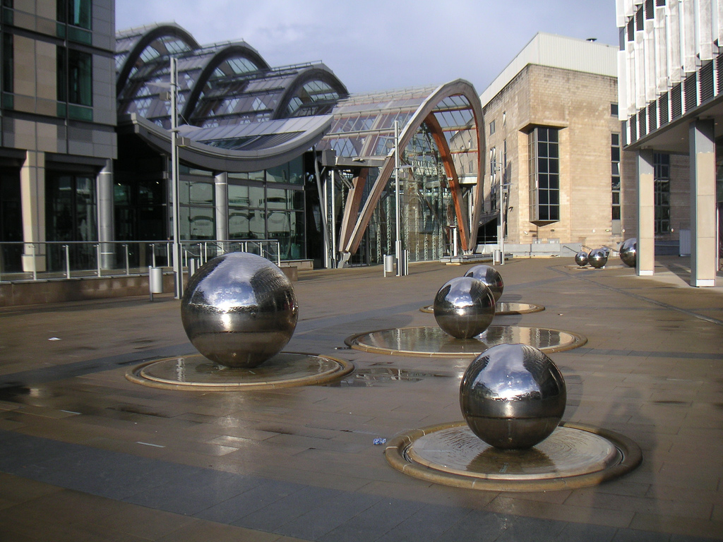 Exterior of the Sheffield Winter Gardens. Original Description: My first picture of the steel balls - taken on to the way to the Sheffield Flickr Meet For an explanation of why all the notes are there, see here